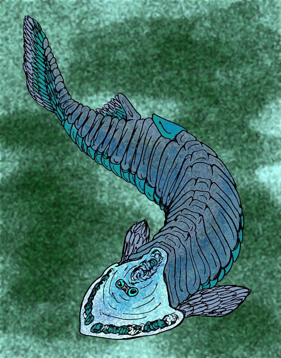 Cephalaspis tenuicornis